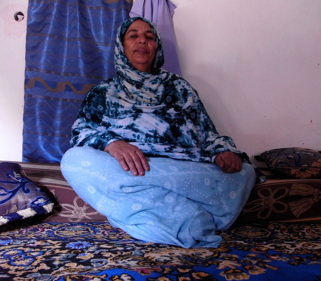 Saharawi woman.